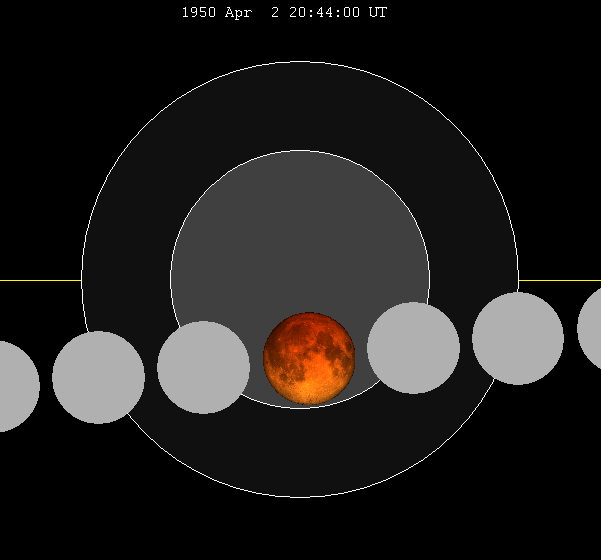 April 1950 lunar eclipse chart of moon's total lunar eclipse path through the earth's shadow. thumb